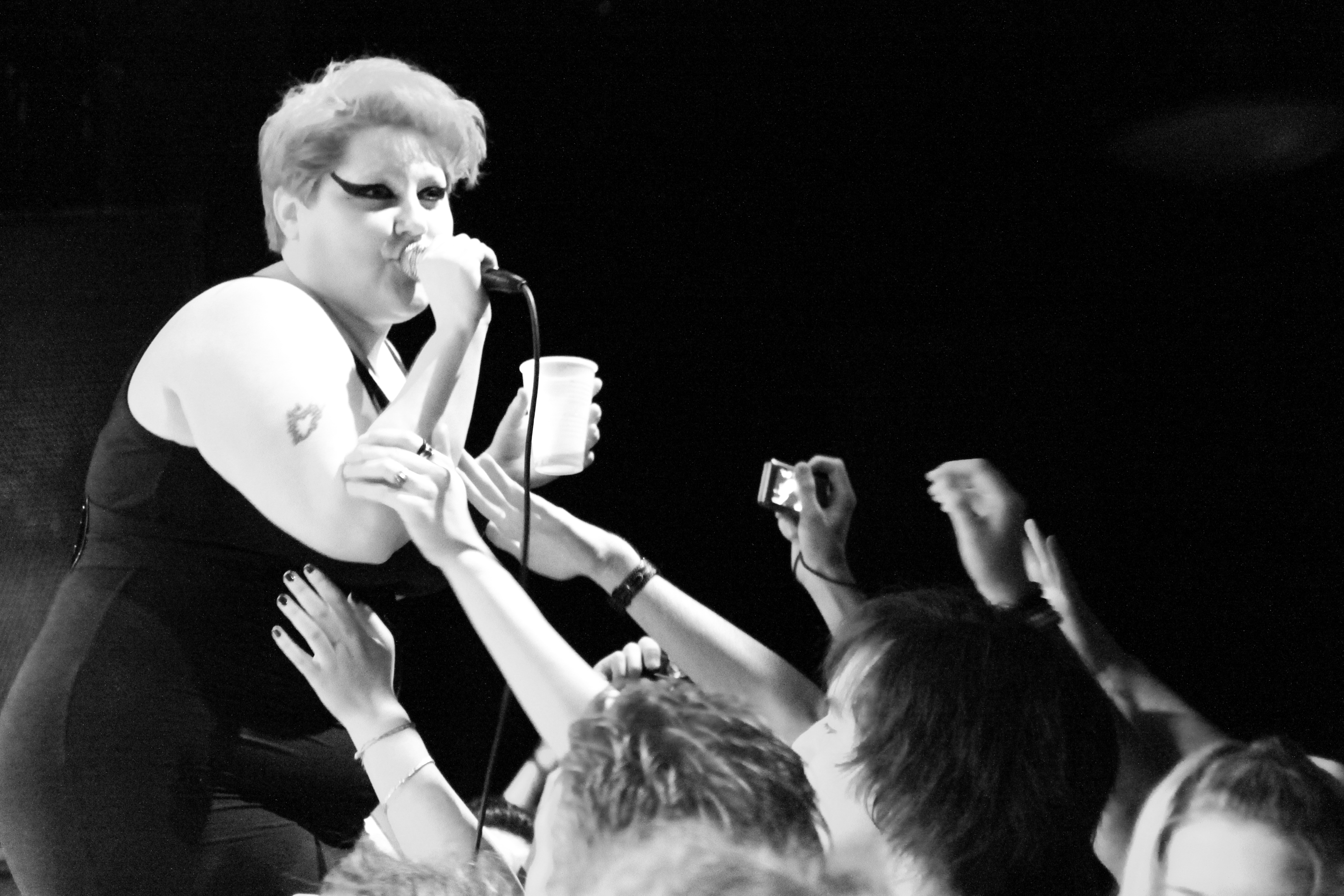 Beth Ditto performing with Gossip at the Commodore Ballroom